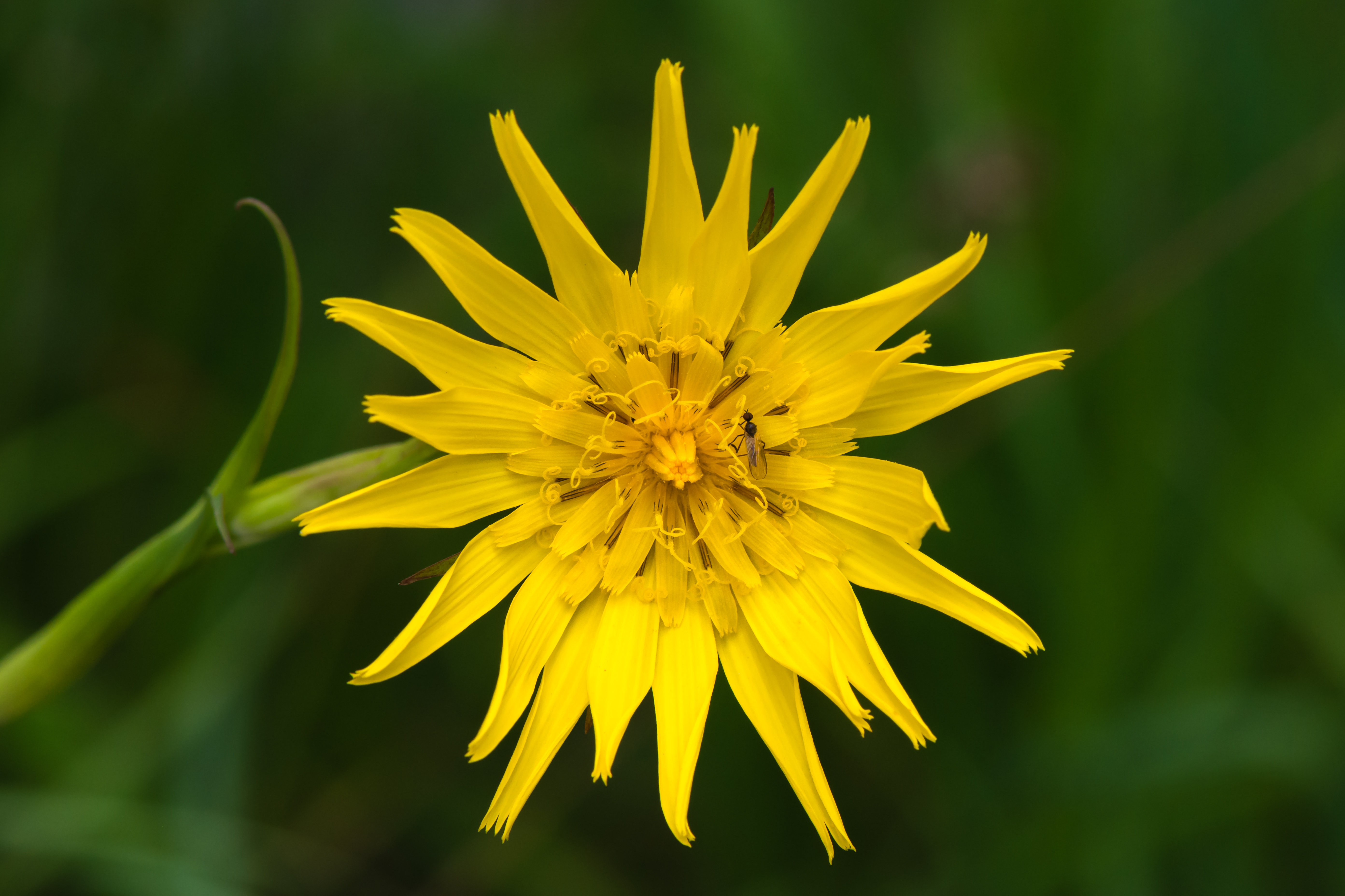 Meadow Salsify (Tragopogon pratensis), found near Mitterbach am Erlaufsee, Lower Austria